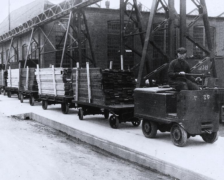 Photograph, glass lantern slide, Transporting lumber at C. P. R.'s Angus Shops, Montreal, QC, about 1930, Anonymous, Silver salts on glass - Gelatin dry plate process - 8 x 10 cm